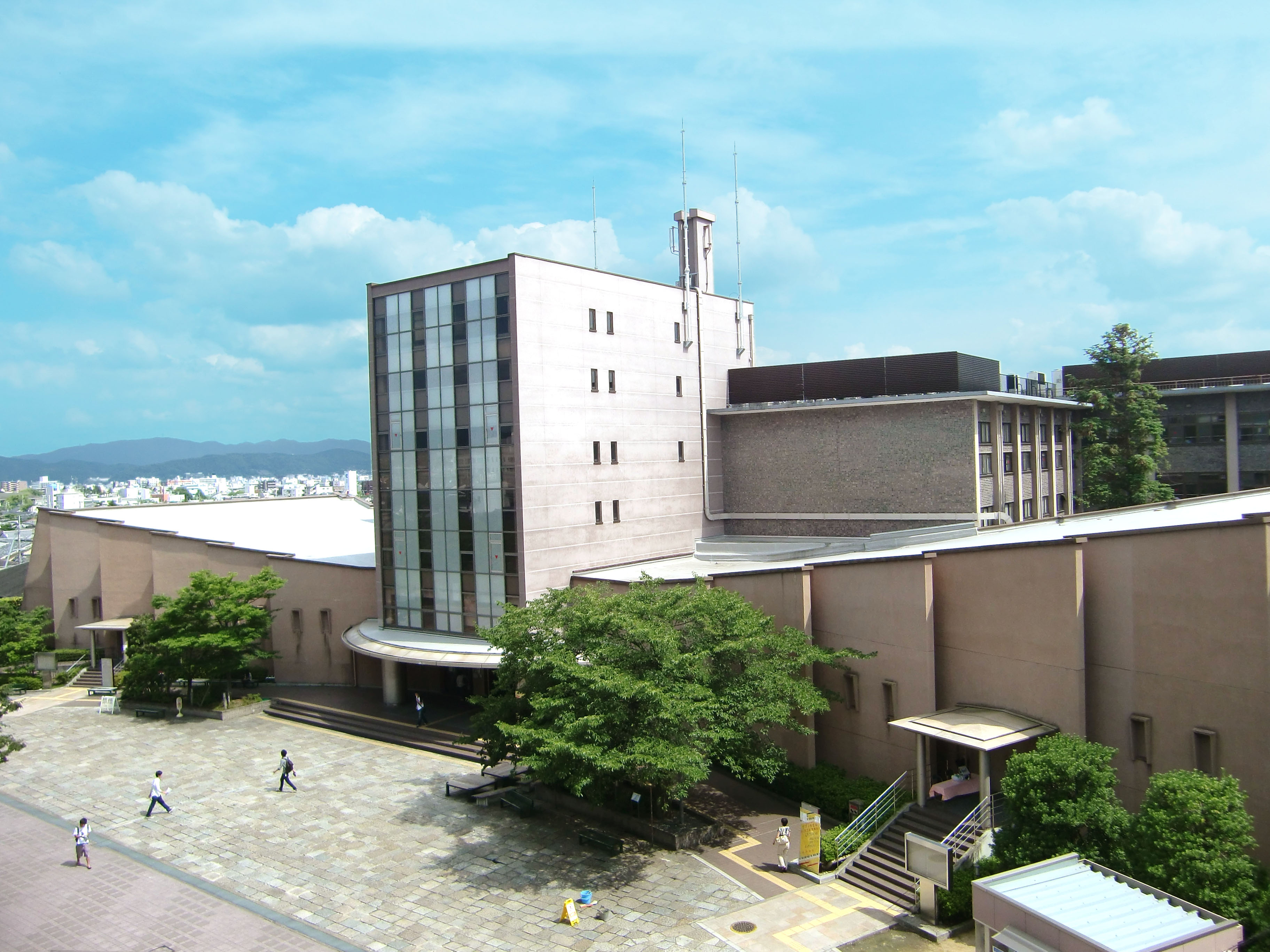 Ritsumeikan University Igakukan Hall, 56-1 Tojiinkitamachi Kita-ku Kyoto-City JAPAN.